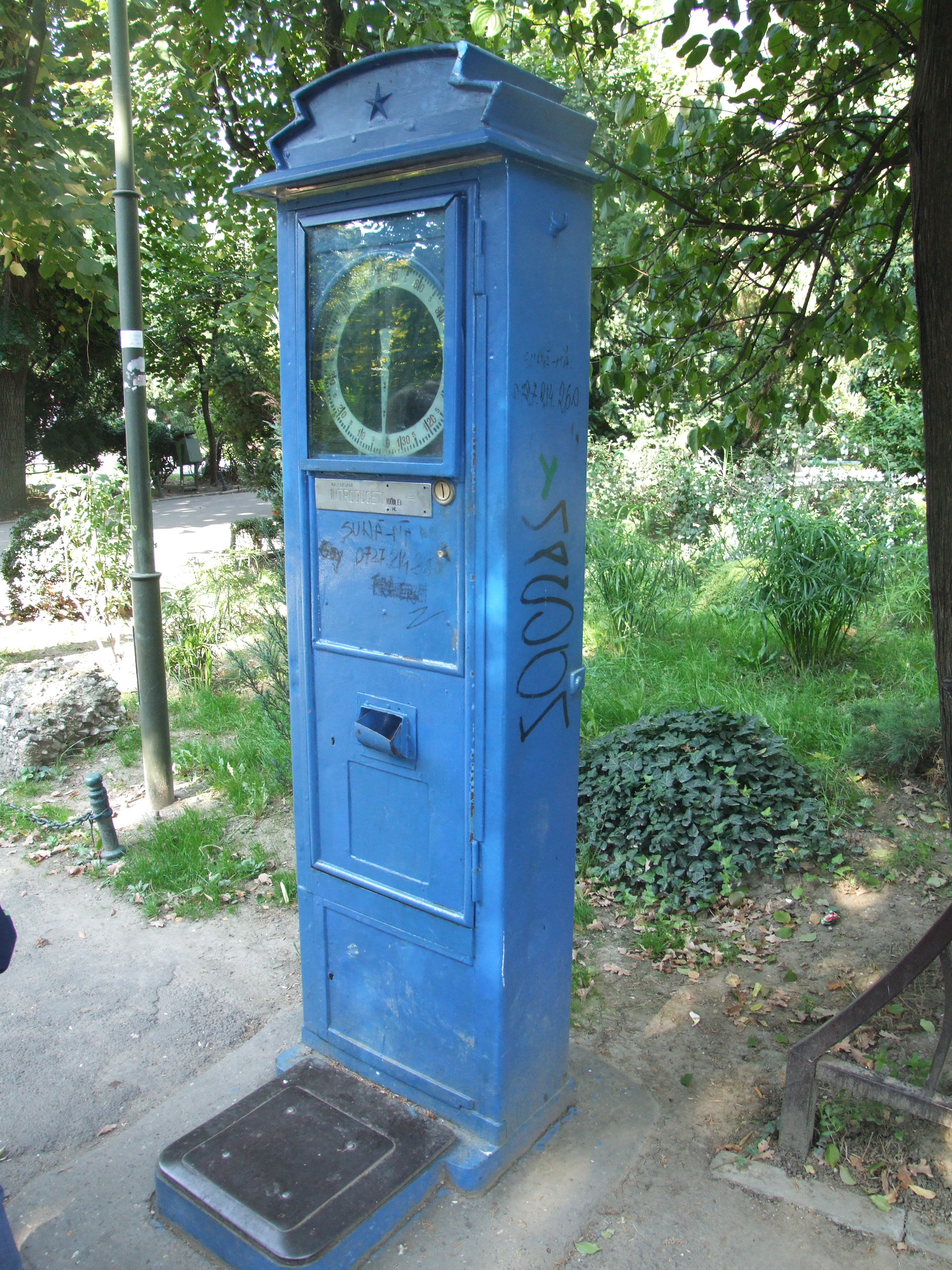 Cismigiu Park Weight scale